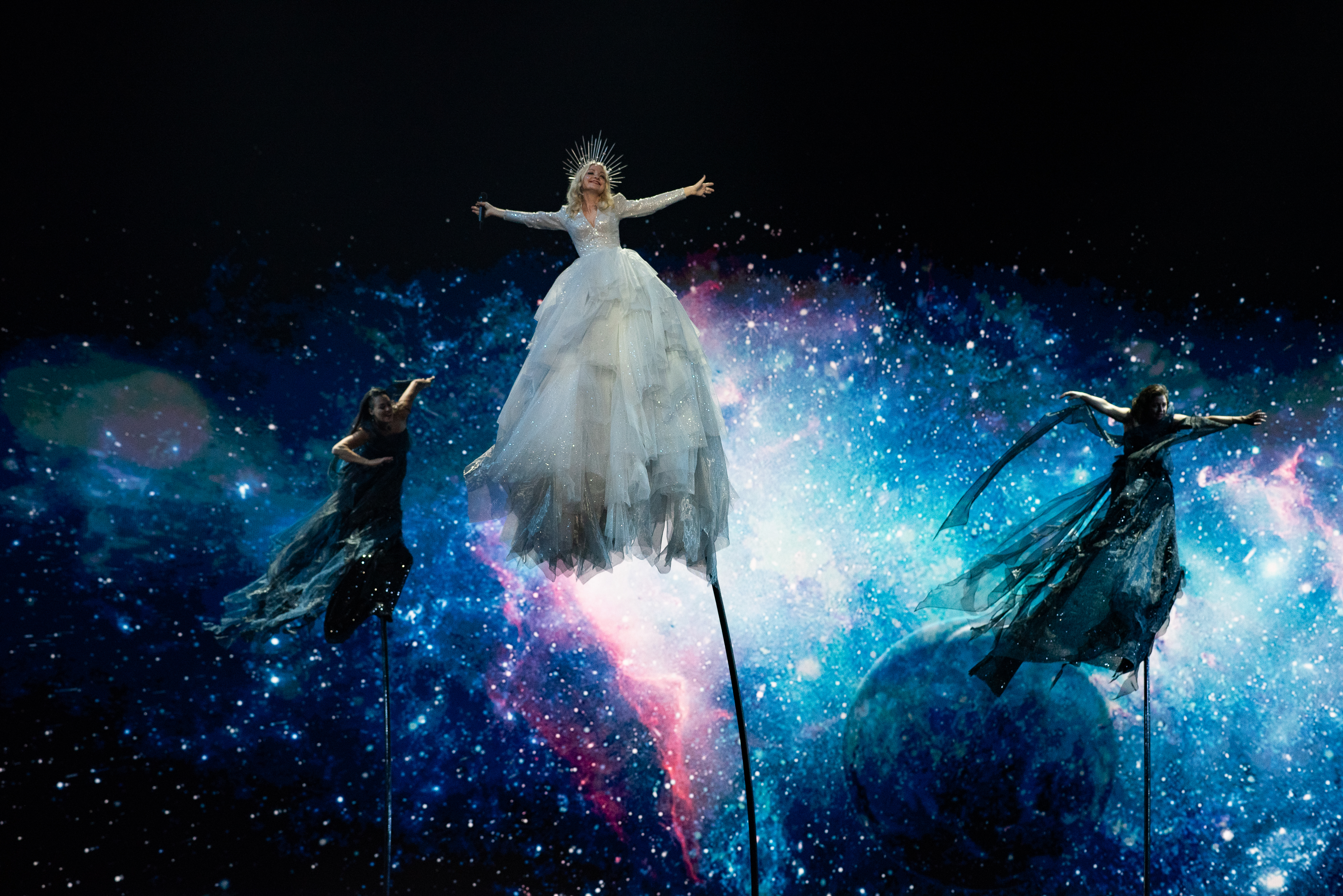 At the 2019 Eurovision Song Contest Semi-final 1 dress rehearsal